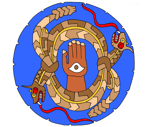 Two tie-snakes and a hand-in-eye motif in a graphic based on a ceremonial stone palette found at the Moundville Site in Moundville.